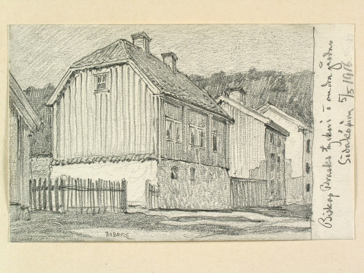 Kolteckning av Ferdinand Boberg (1860-1946) föreställande Biskop Hans Brasks tryckeri i Söderköping, daterad 5 maj 1916. Teckningen ingår i samlingen i Nordiska museets arkiv.